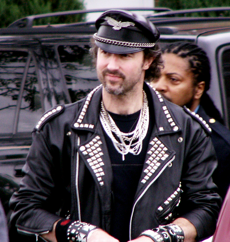 Eric Anzalone of the Village People at Asbury Park, New Jersey on June 3, 2006. In the background is Ray Simpson.